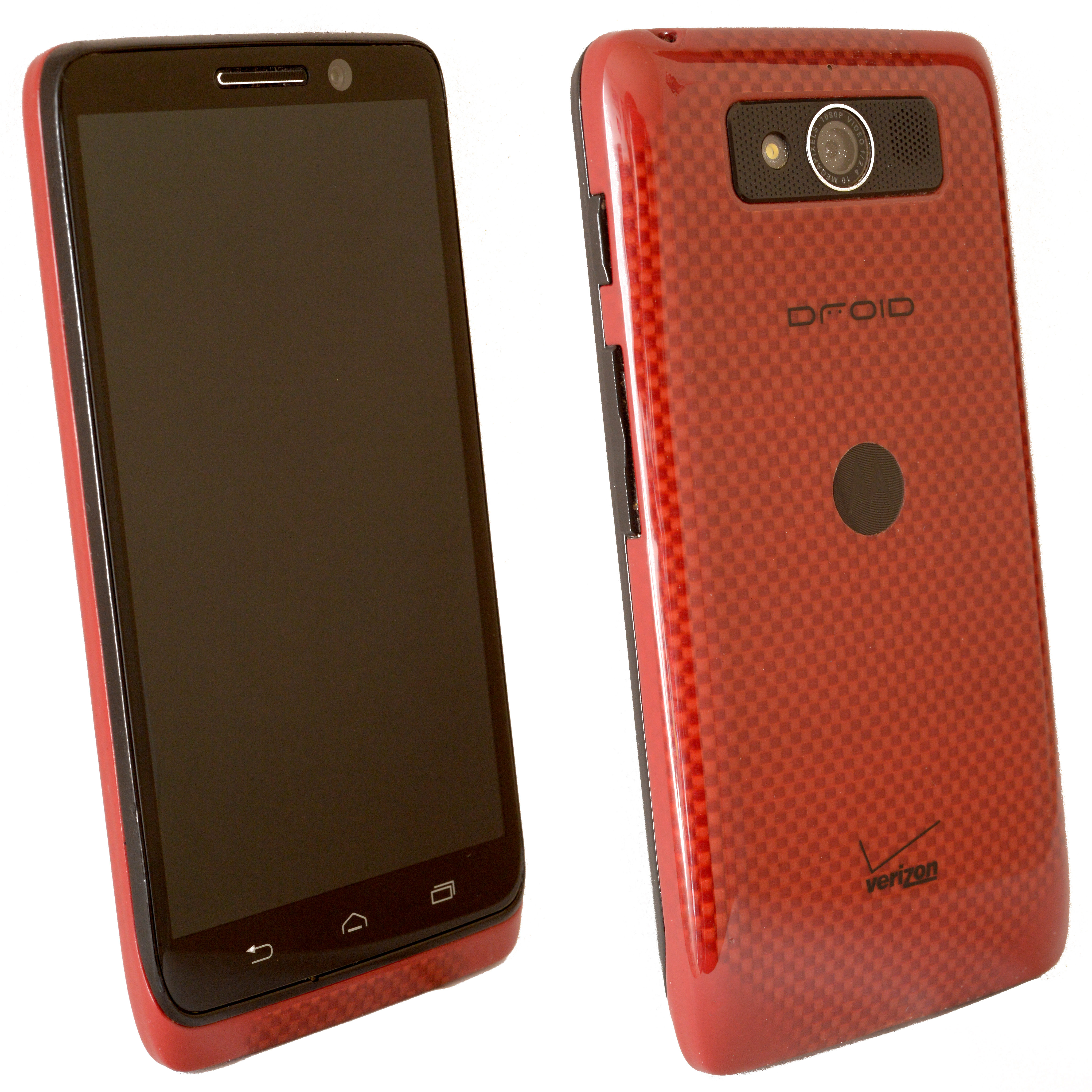 Motorola Droid Mini XT1030 Red Smartphone. Photo attribution must go to Steven H. Keys and